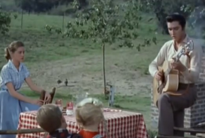 Deke Rivers (Elvis Presley) sings for Susan Jessup's (Dolores Hart) family. Scene from Paramount Pictures' Loving You.